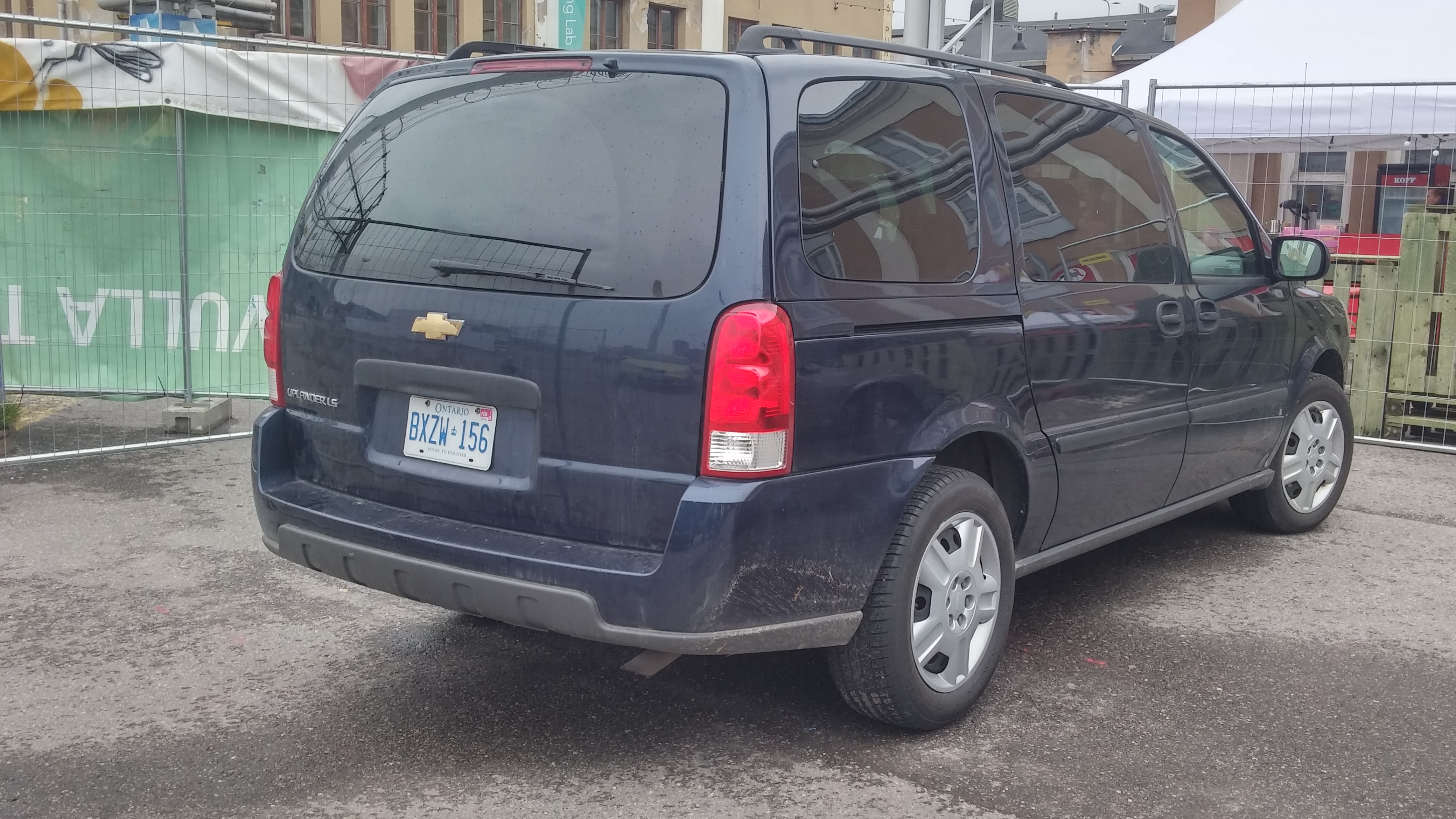 Chevrolet Uplander